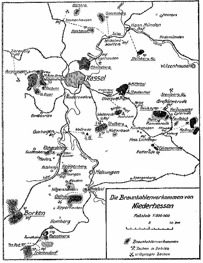 Map of the lignite mining area in Northern Hesse, Germany